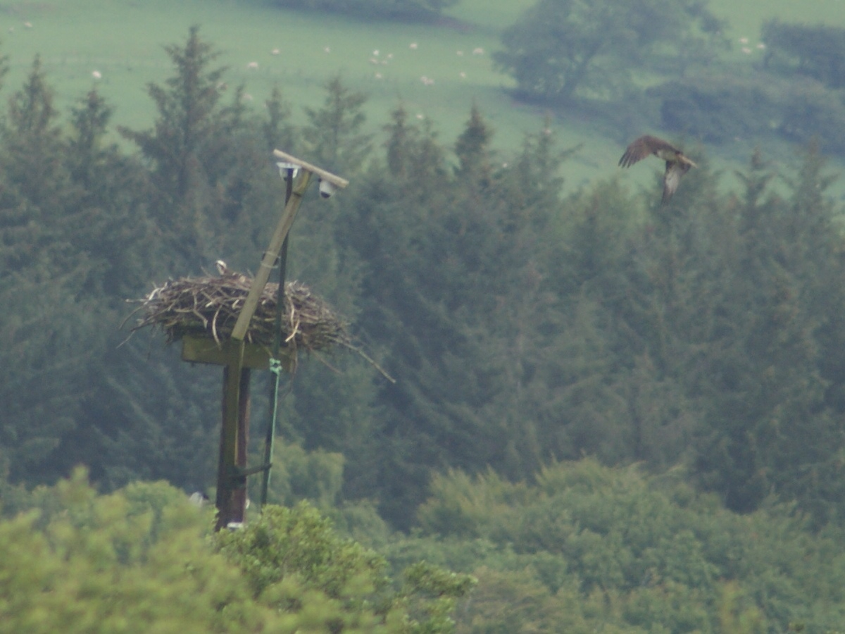 Osprey approaching nest at the Dyfi Osprey Project, Wales. Its mate, protecting its young, is already on the nest.